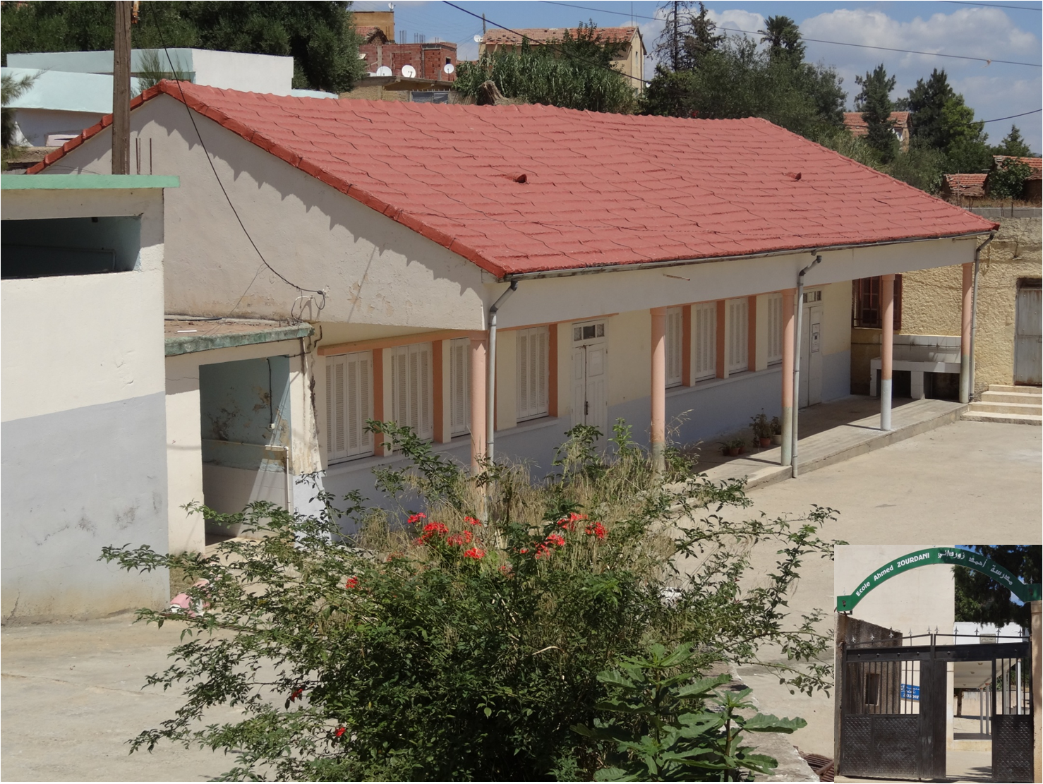 Primary School of Ibouhatene